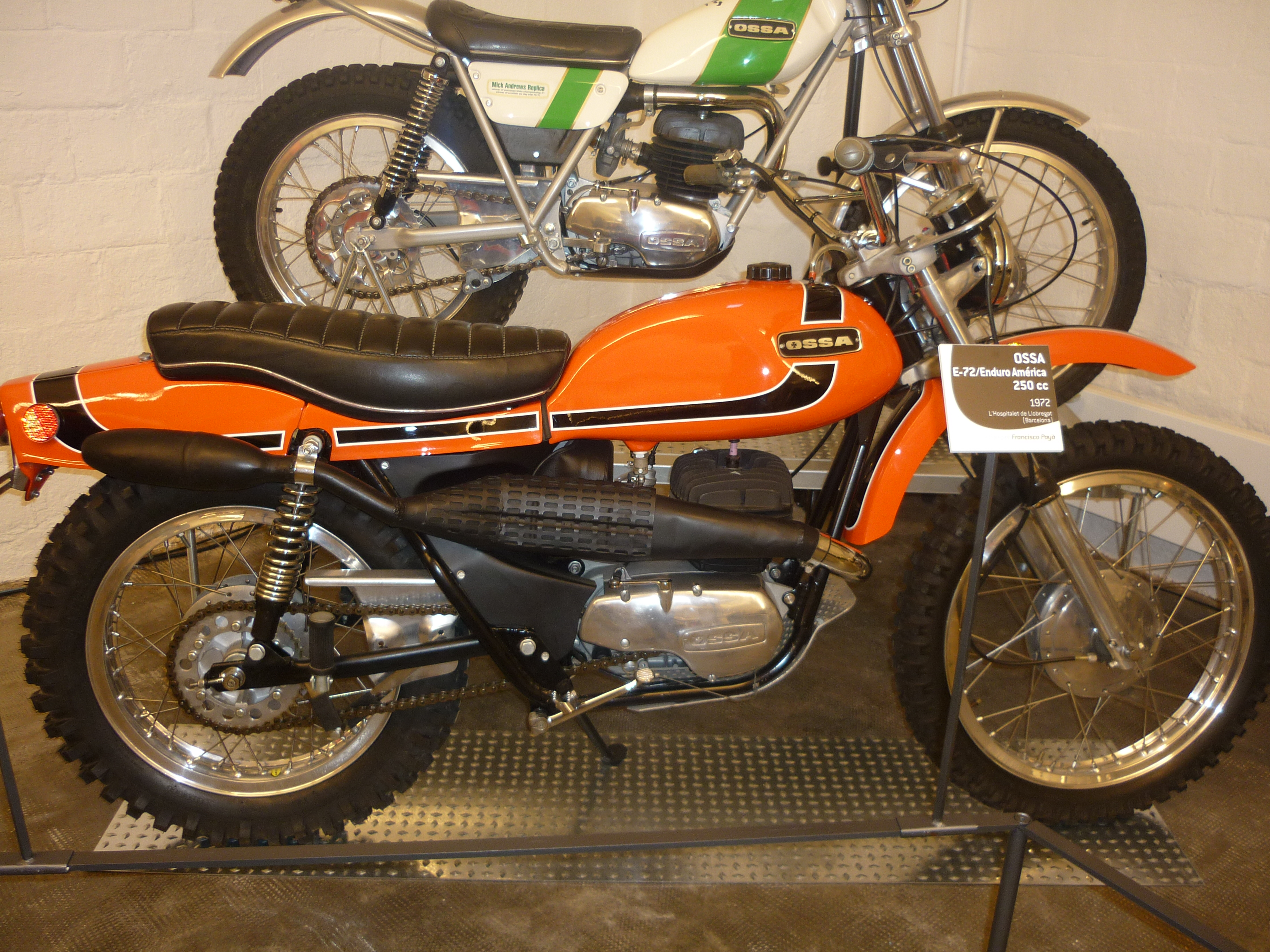 OSSA AE-72 250cc (1972), AKA Enduro America. Behind, a OSSA MAR 250.Museu de la Moto de Barcelona (Catalonia).